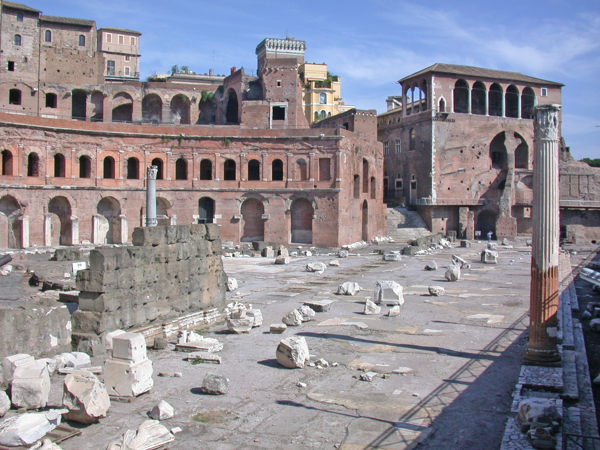 Rome, Trajan's Forum, the east portico and exedra. Personal photo (september 2005) by MM in it.wiki